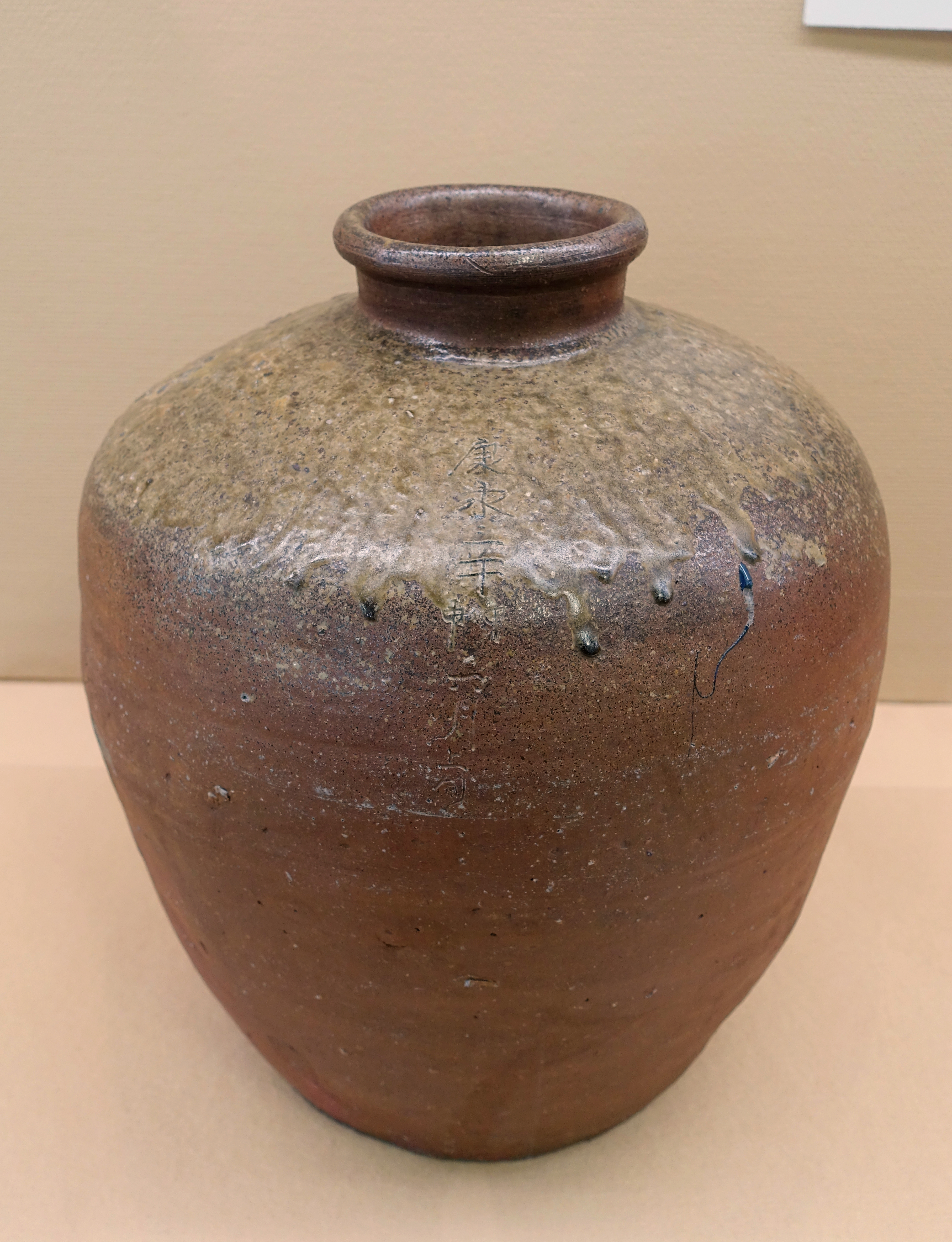 Exhibit in the Hakone Museum of Art - Hakone, Kanagawa, Japan.